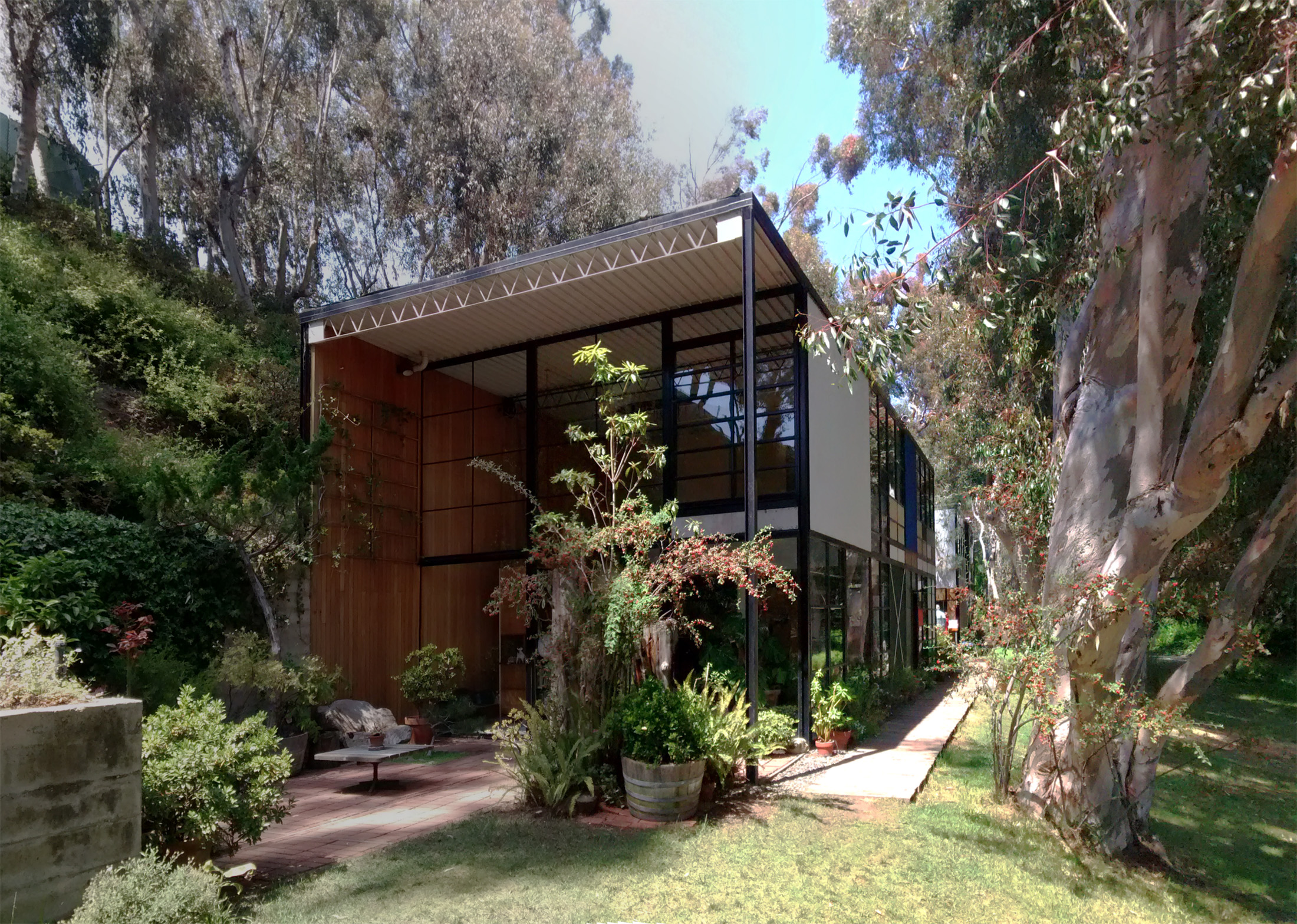 Eames House, Case Study House No. 8, Charles and Ray Eames, 1949, Chautauqua Boulevard, Pacific Palisades, Los Angeles